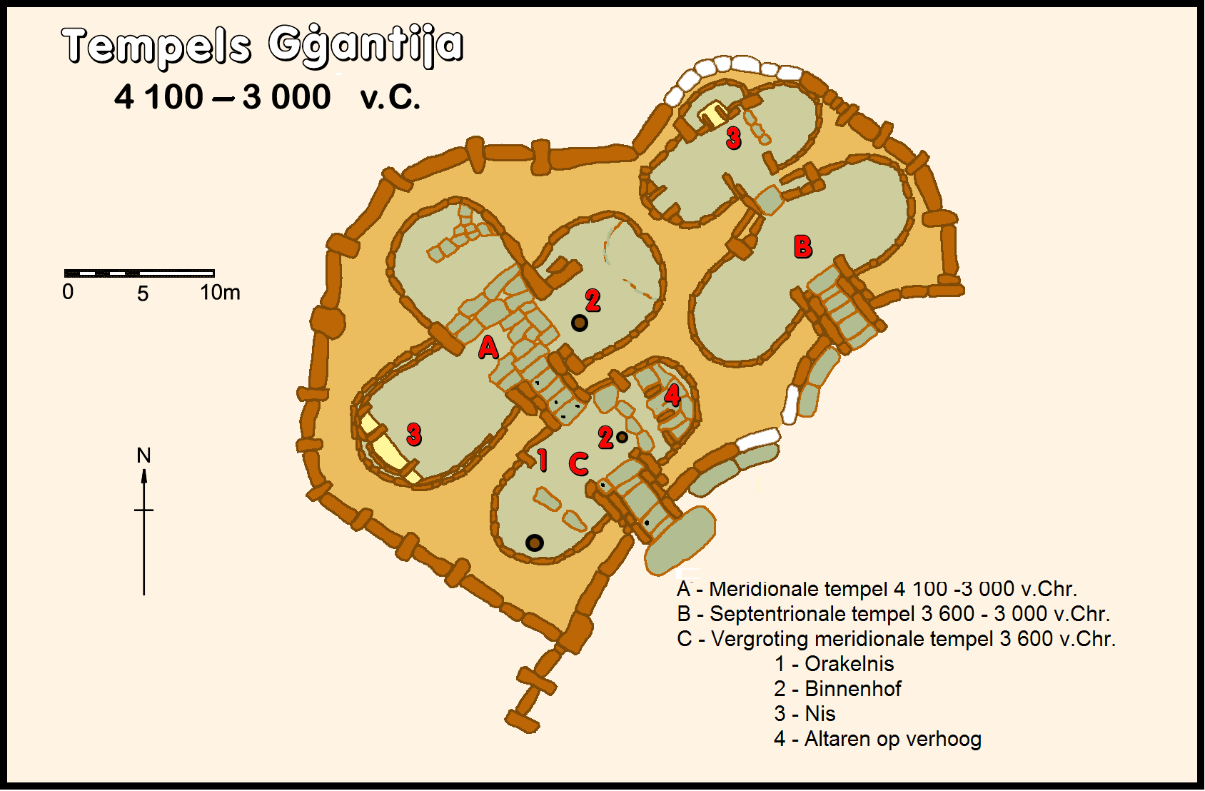 From Plan des temples de Ggantija.png